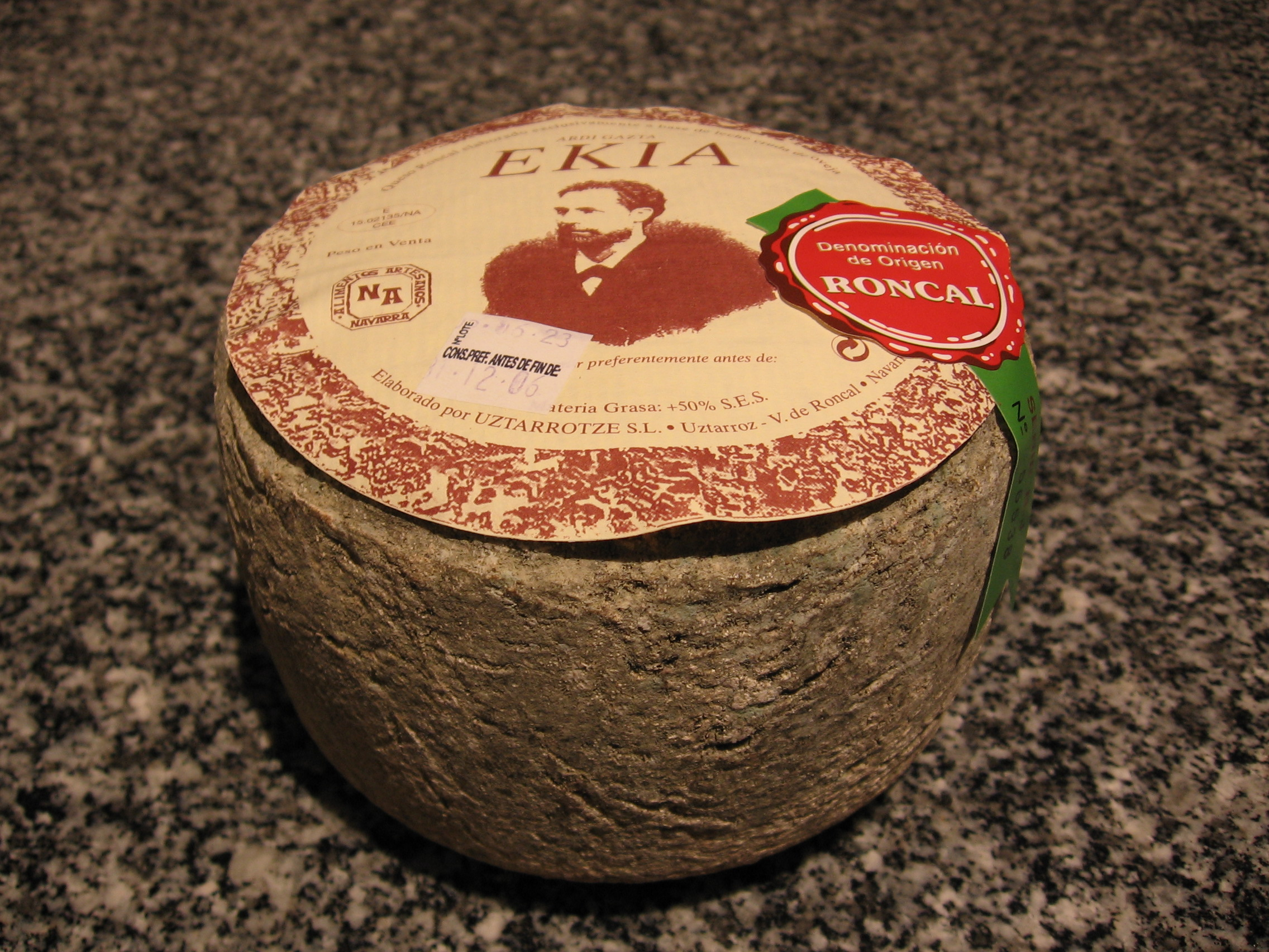 Sheep's milk cheese from the Roncal valley, Navarra, Spain